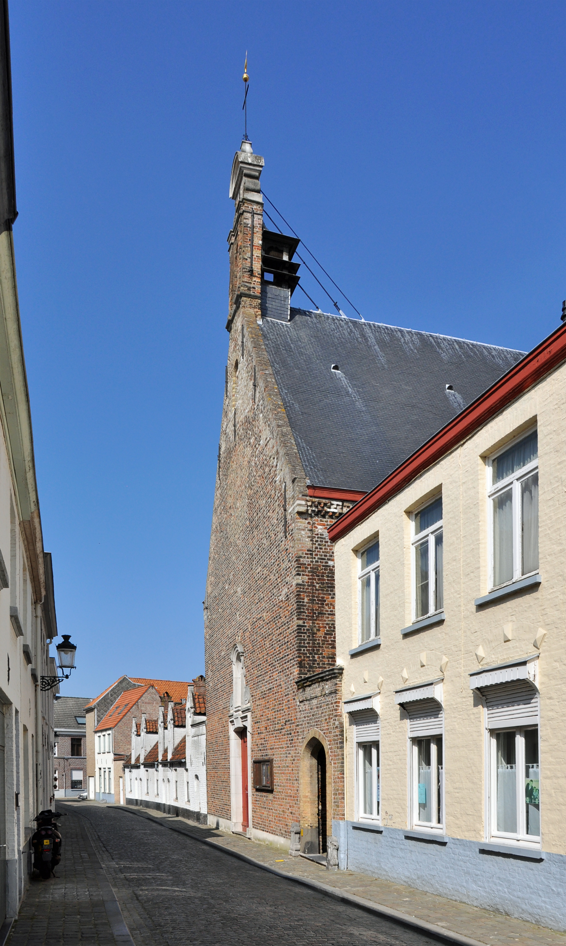 Bruges (Belgium): the Kreupelenstraat and the Blindekens chapel